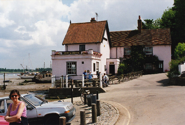 Butt & Oyster Inn, Pin Mill, Suffolk. Looking East. The pub, Pin Mill and the Orwell Estuary feature in Arthur Ransome's book We Didn't Mean to Go to Sea. Having had the book read to me as a child, visiting it for the first time over 40 years later was a bit of a pilgrimage!